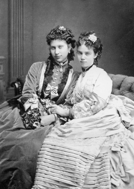 Crown Princess Louise of Denmark (1851–1926) and Princess Thyra of Denmark (1853–1933)